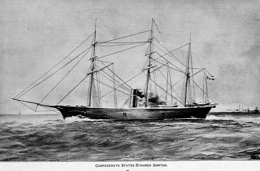 CSS Sumter, a 473-ton bark-rigged screw steam cruiser, was built as the merchant steamship Habana at Philadelphia in 1859 for McConnell's New Orleans & Havana Line. She was later renamed Gibraltar or Gibraltar of Liverpool.